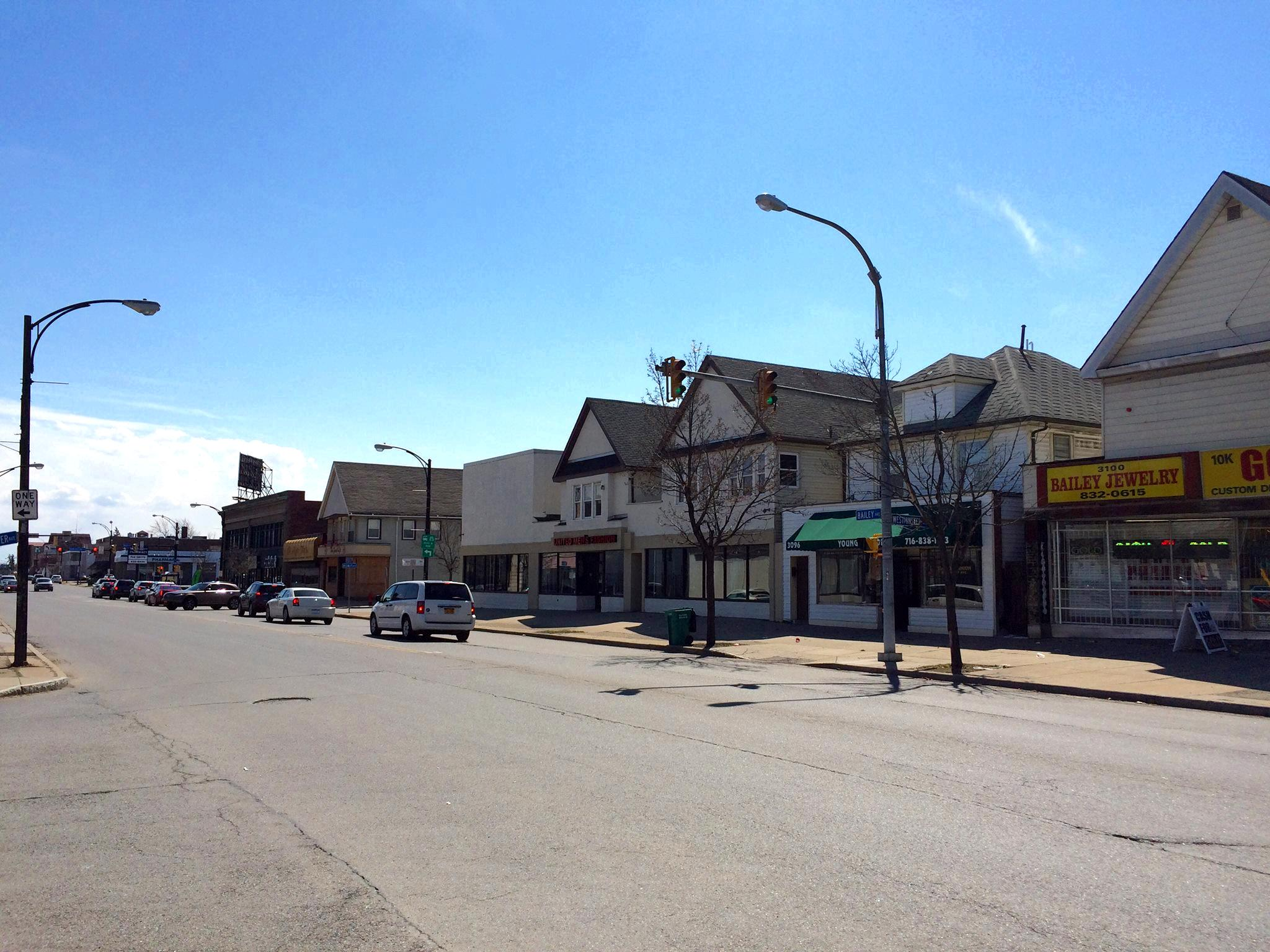 Looking south down Bailey Avenue from the corner of Westminster Avenue, in the Kensington-Bailey business district of Buffalo, New York.